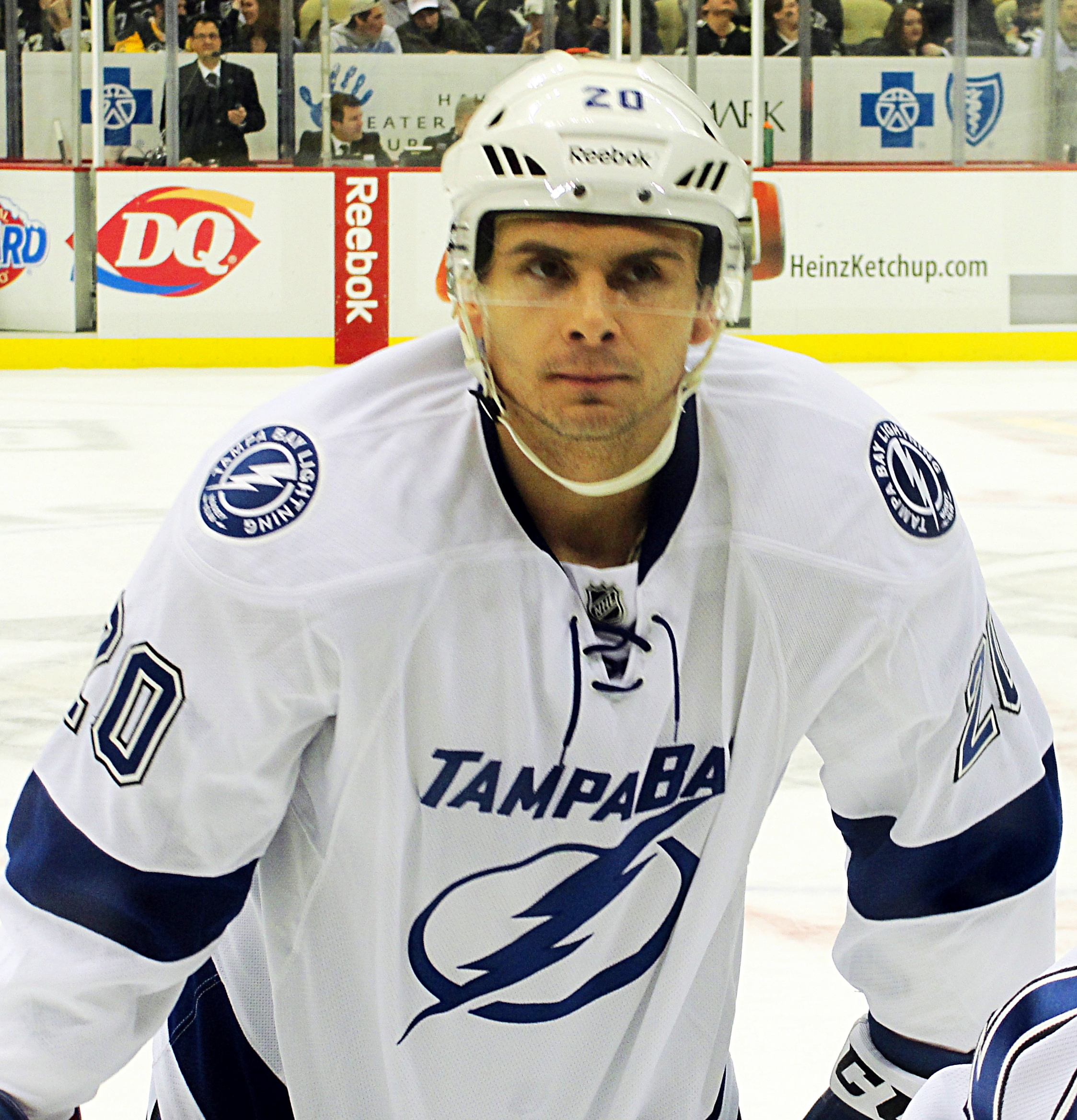 Tampa Bay Lightning forward Tim Wallace during a February 25, 2012 game against the Pittsburgh Penguins at Consol Energy Center in Pittsburgh, PA.